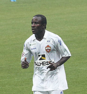 Seydou Doumbia